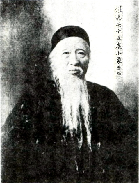 Yang Shoujing（楊守敬）was a Qing Dynasty Chinese historical geographer, calligrapher, bibliophile, antiquarian, and diplomat